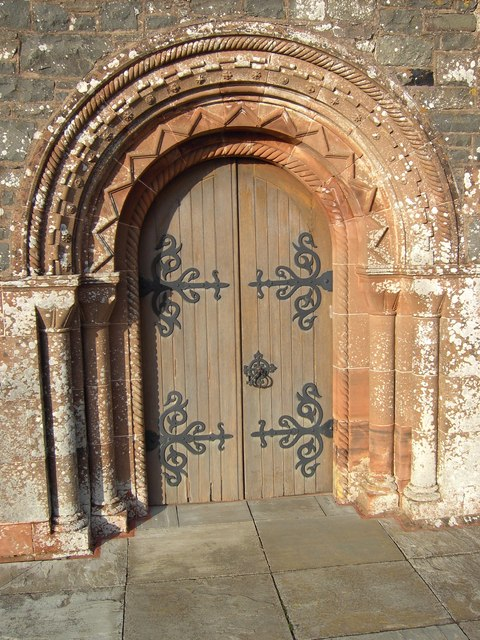 Kirk Doors Arch and doors at Cranshaws Church.